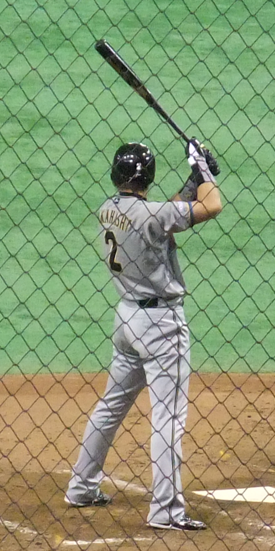 Shinji Takahashi, catcher of the Hokkaido Nippon-Ham Fighters, at Tokyo Dome.